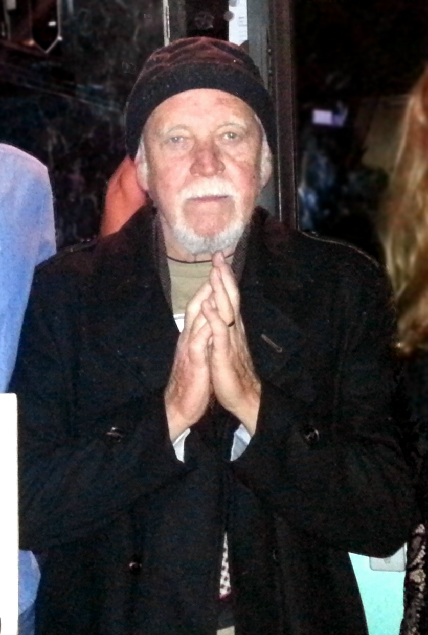 Gary Brooker after a Procol Harum concert in Hanover on Oct. 23, 2018.